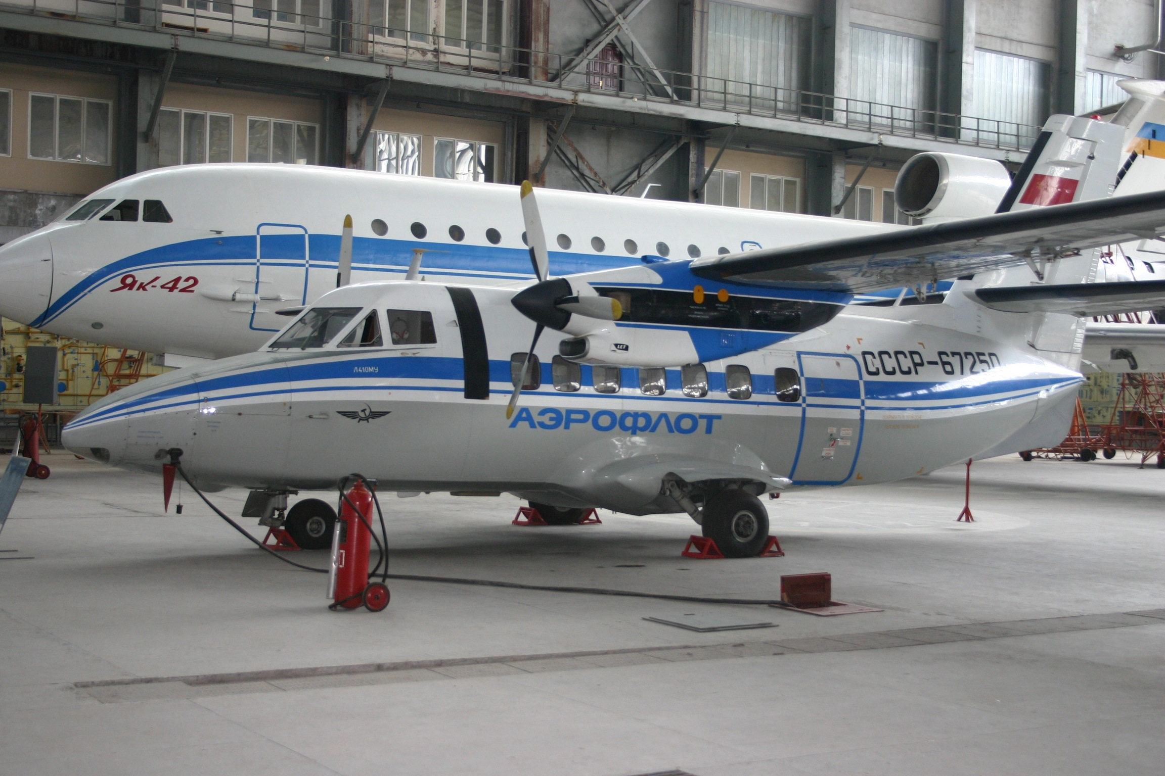 At Kiev Institute Of Aviation